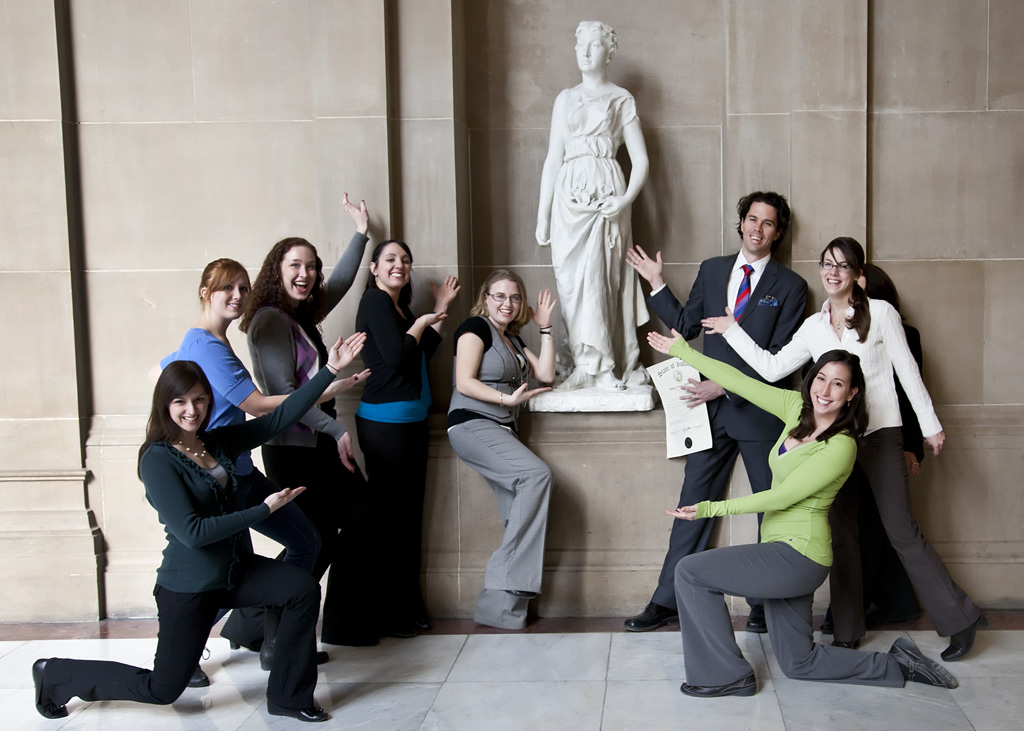 Members of the IUPUI Collections Care and Management course pose with the Indiana sculpture at the Indiana Statehouse after receiving a concurrent resolution recognizing their work documenting public art in Wikipedia. Statue made by Miss Retta Matthews in 1893